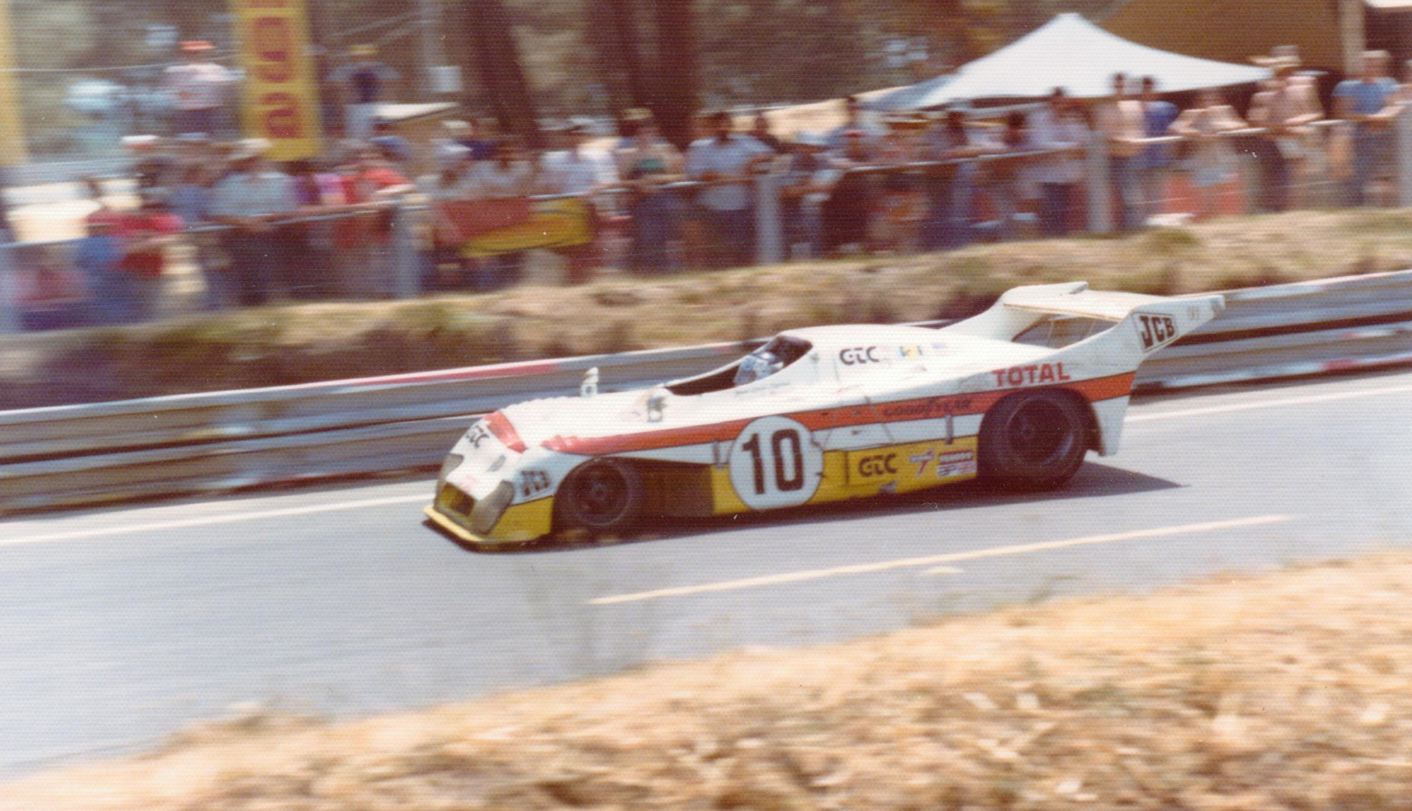 The No. 10 Grand Touring Cars Mirage GR8-Ford Cosworth at the 1976 24 Hours of Le Mans